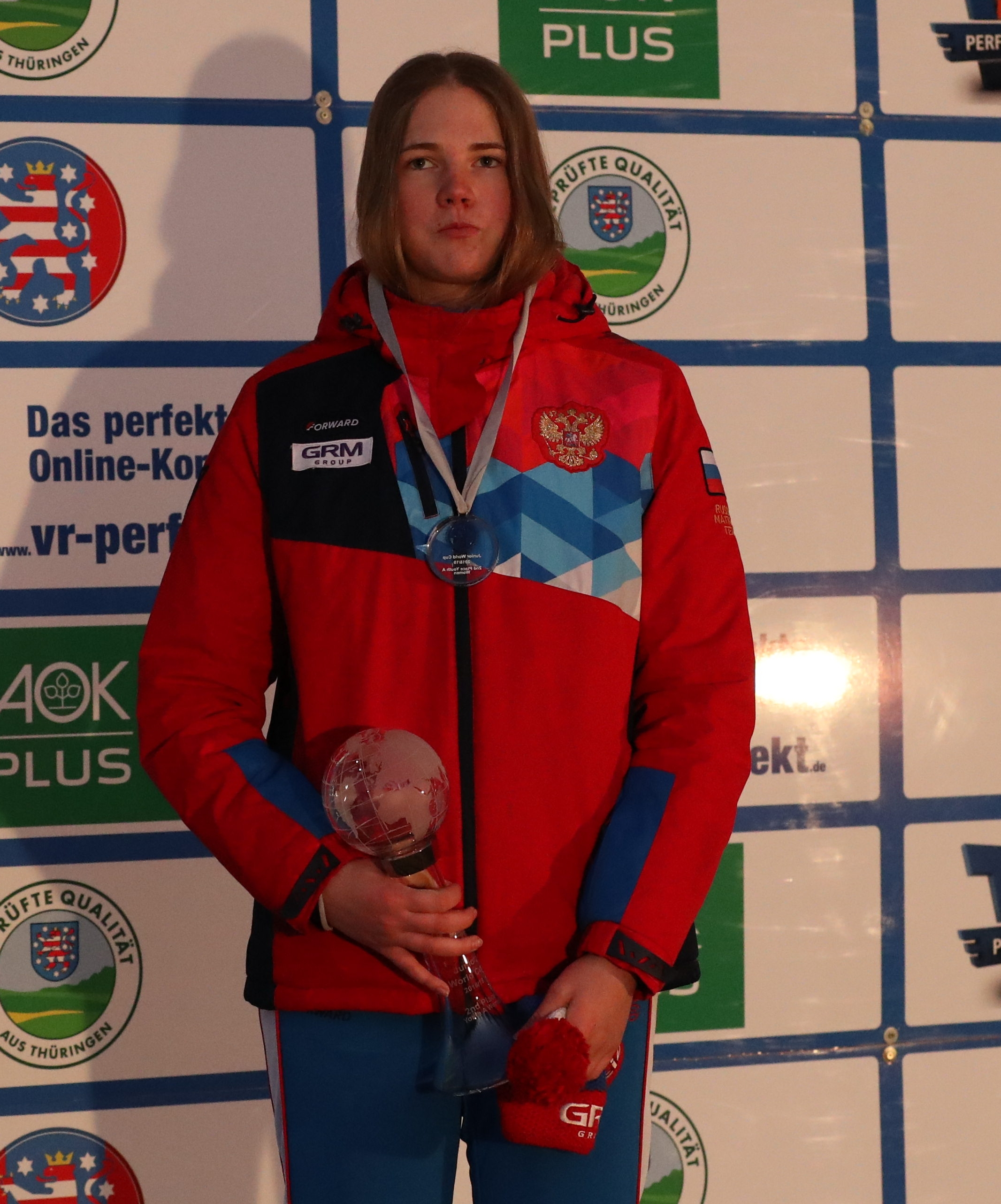 Fridays Victory Ceremonies at the 2018/19 Juniors and Youth A Luge World Cup in Oberhof